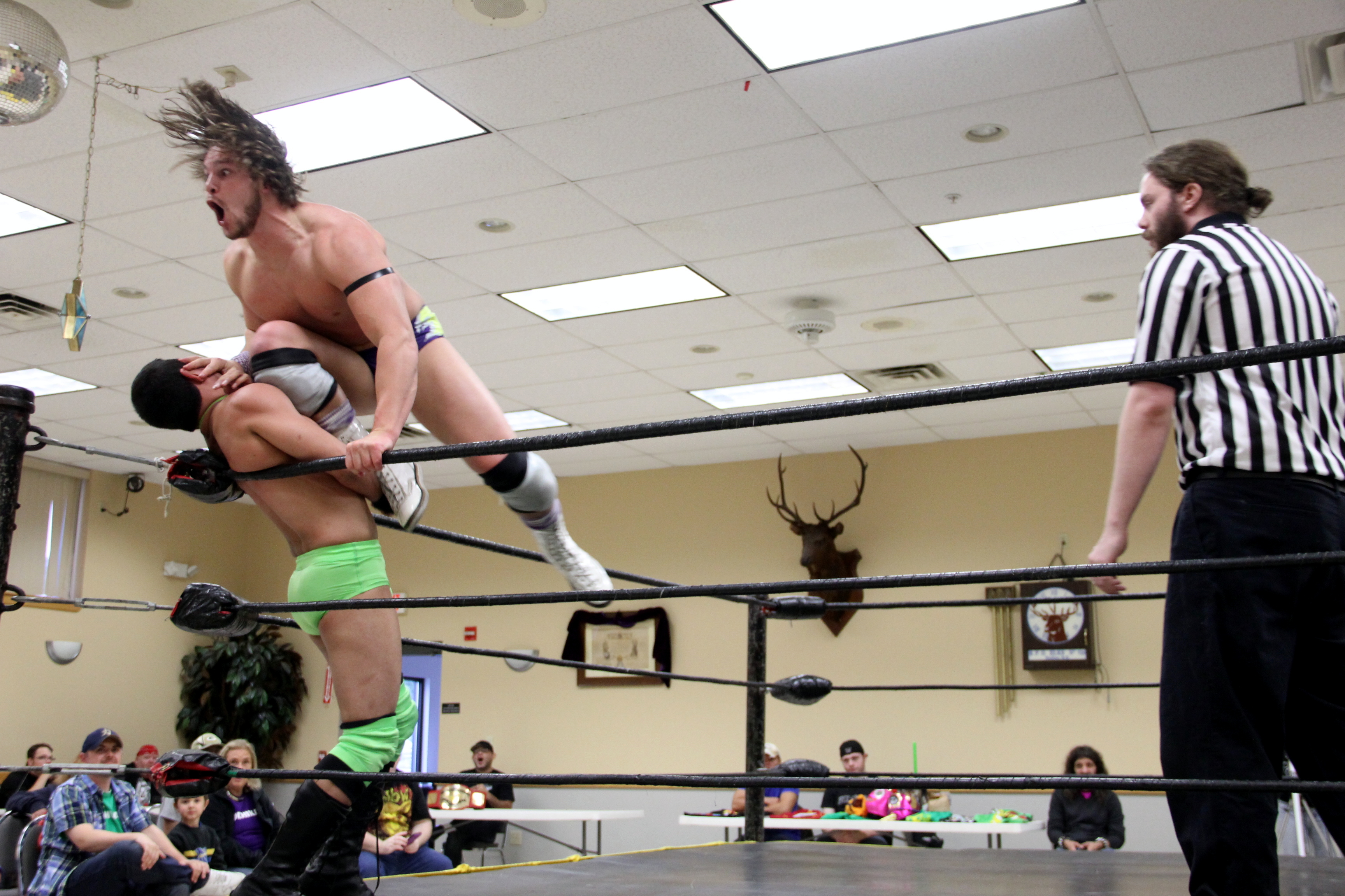 high knee to the face